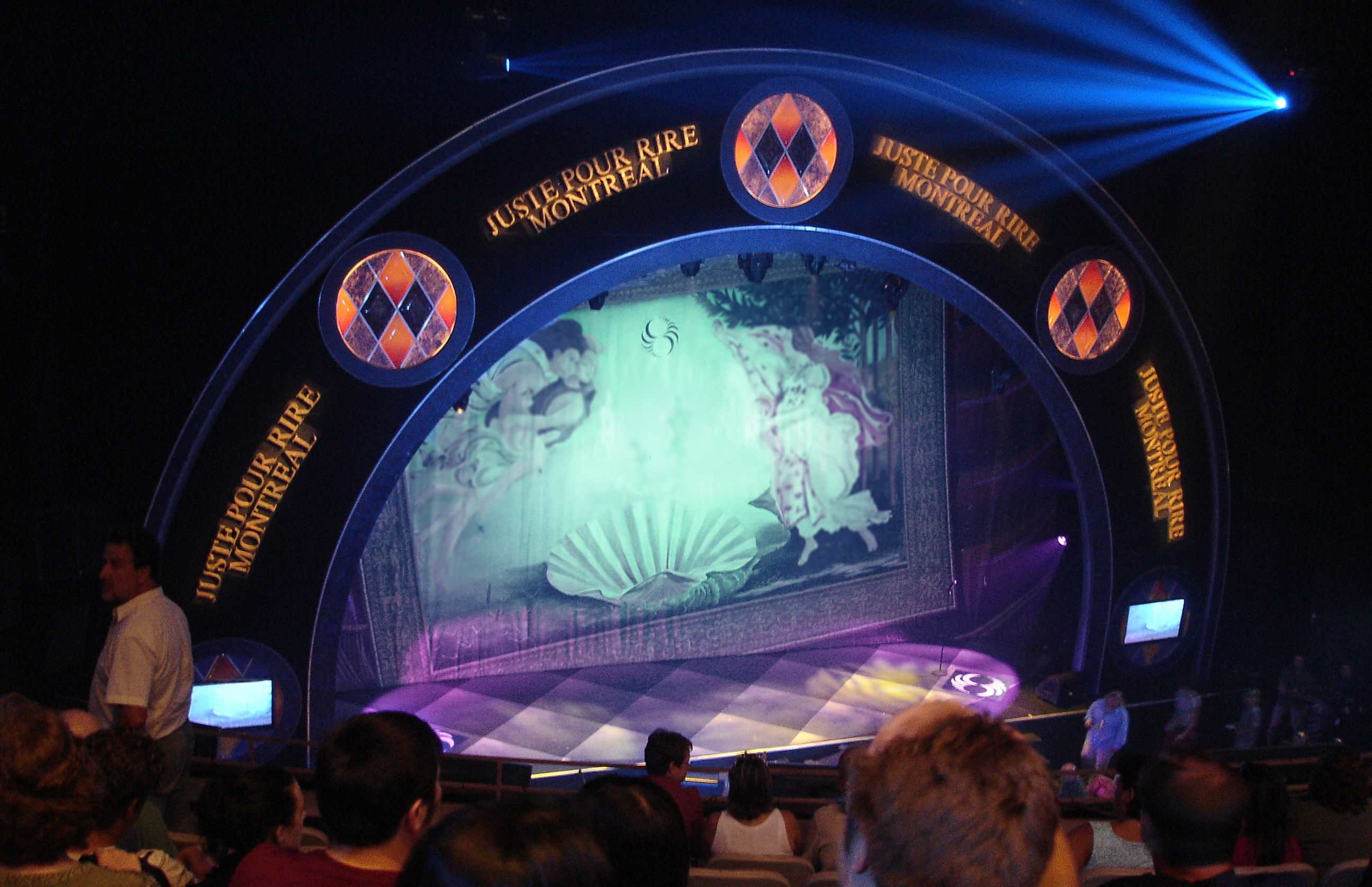 Interior of St. Denis Theatre in Montreal (2005), retouched to remove possible copyright-infringing 2D image of Victor, the Just for Laughs mascot